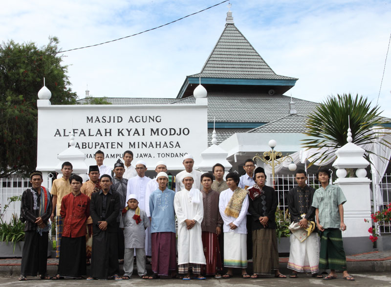 Jawa Tondano People with background Jawa Tondano Mosque ( Al Falah )